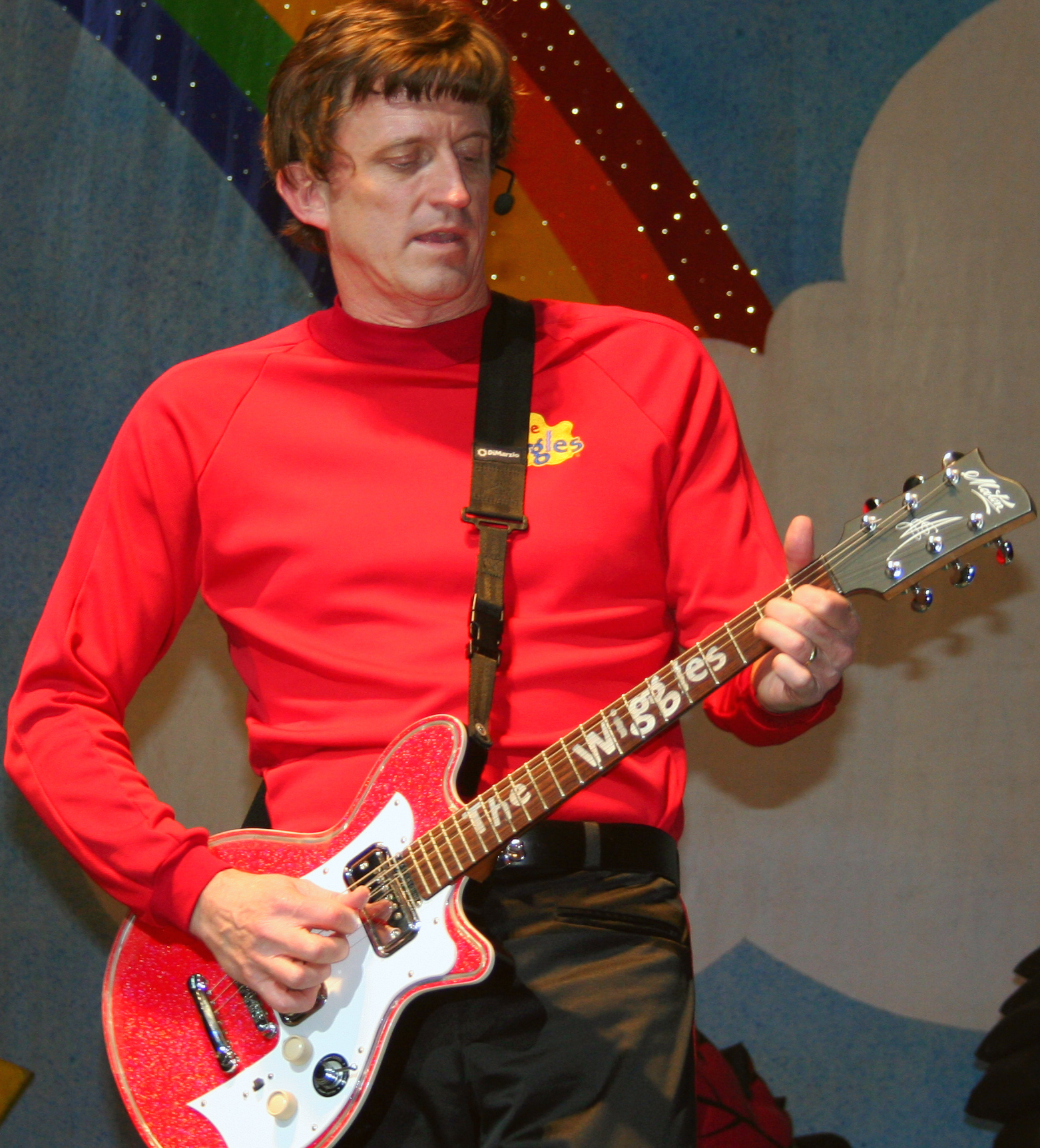 Murray Cook of The Wiggles Live @ the MCI Center - Nov. 8, 2007 Photo Taken by Anthony Arambula